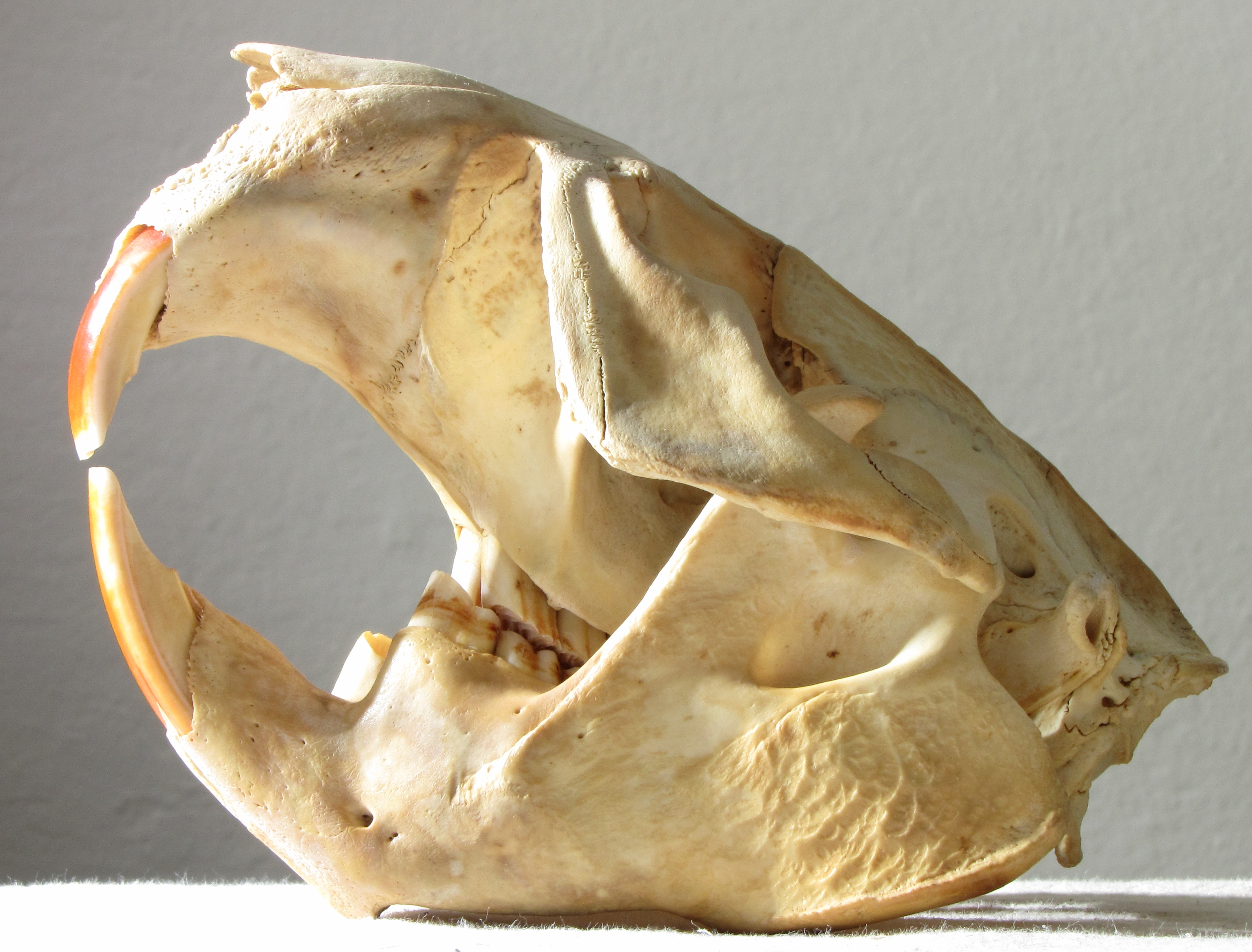 Skull of North American Beaver, collected about 1998, as a nearly complete decayed carcass on San Francisco Bay shore.